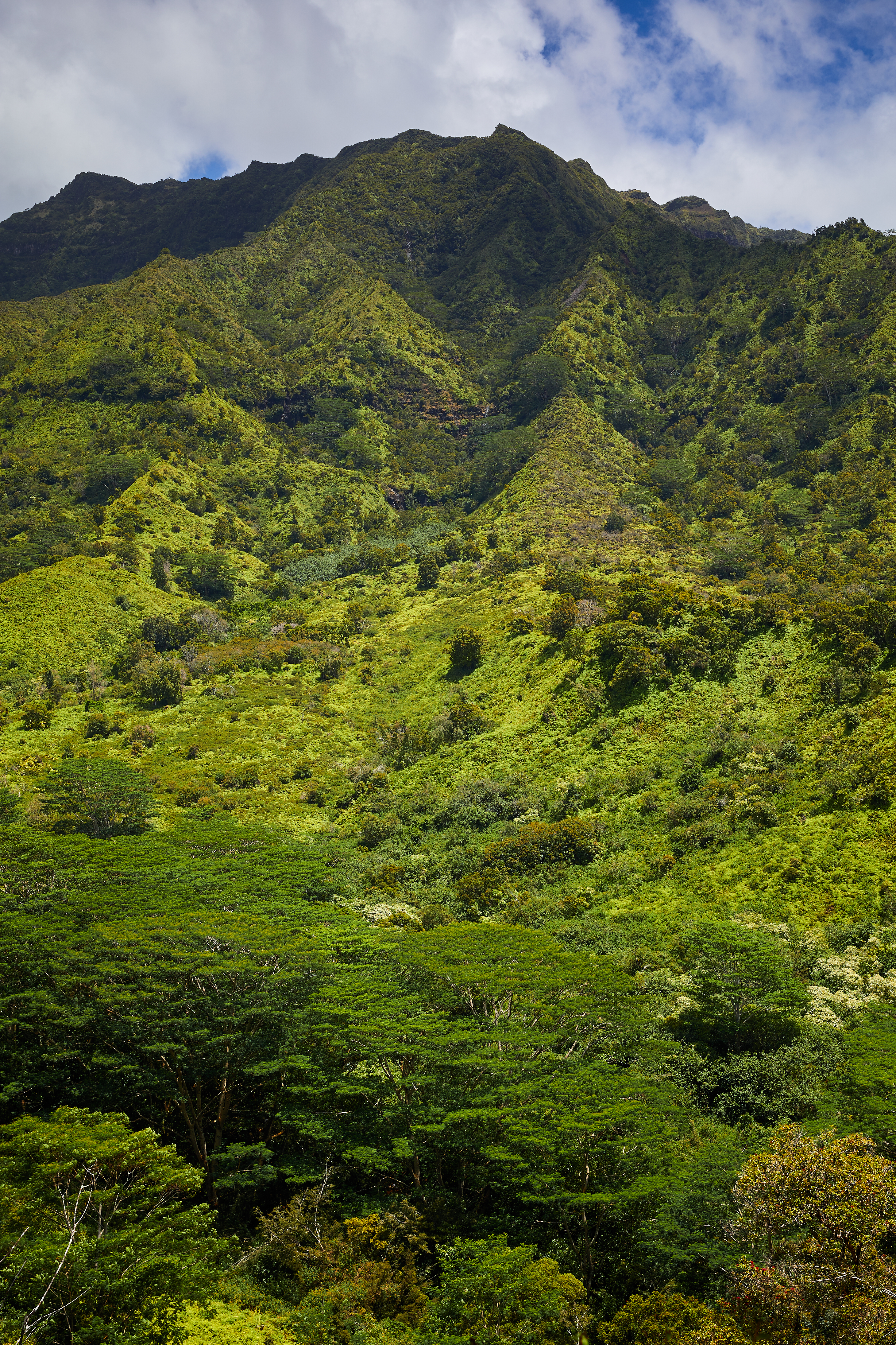 Makaleha Mountains on Kauaʻi as seen from Moalepe Trail, Kauaʻi County, Hawaiʻi